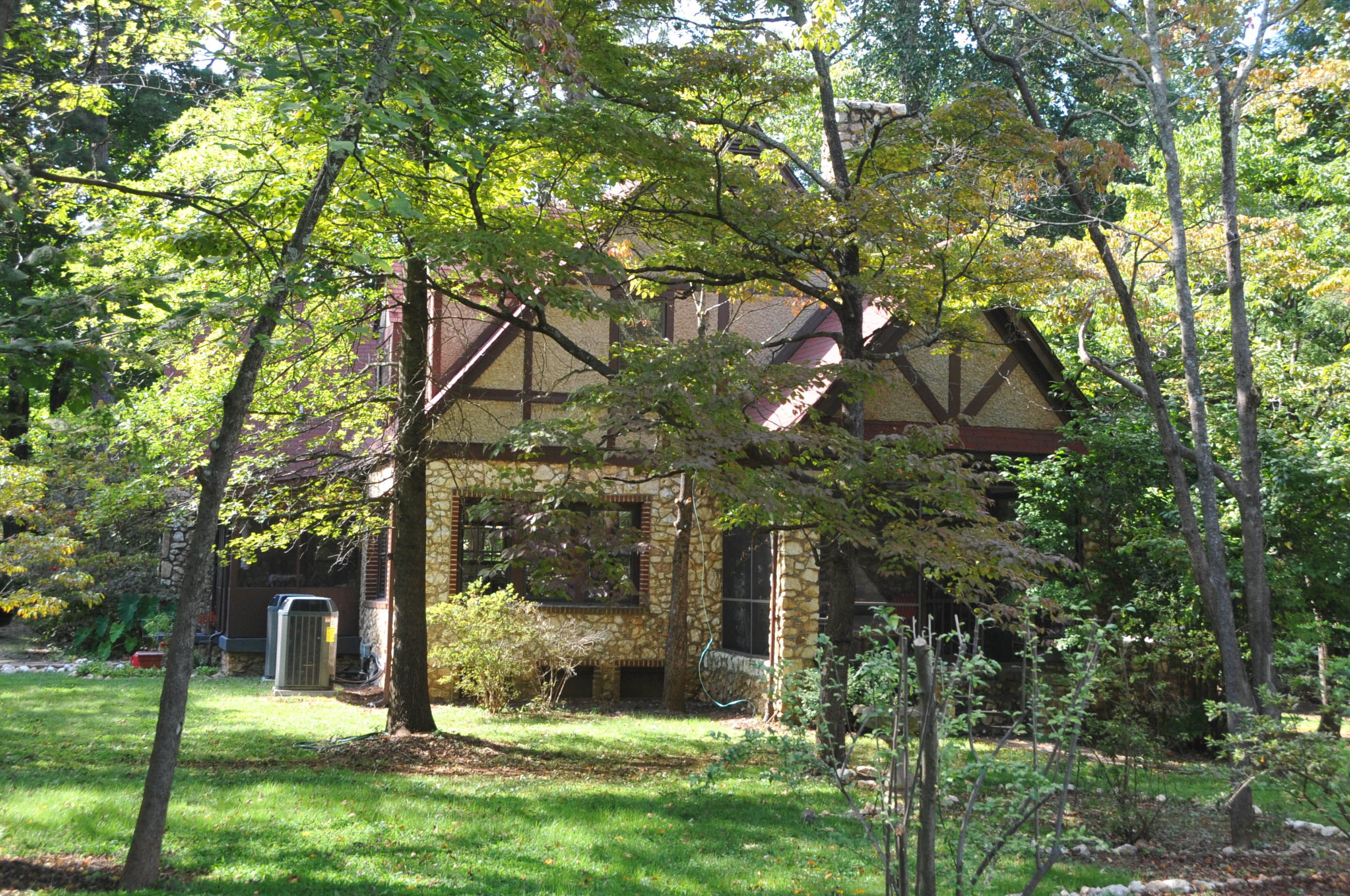 BUILT CIRCA 1929 AS A TUDOR REVIVAL HOME; CONSTRUCTED OF WHITE FLINT ROCK ALONG WITH ALL THE OUTBUILDINGS AND A LOW WALL AROUND 3 SIDES OF THE PROPERTY.